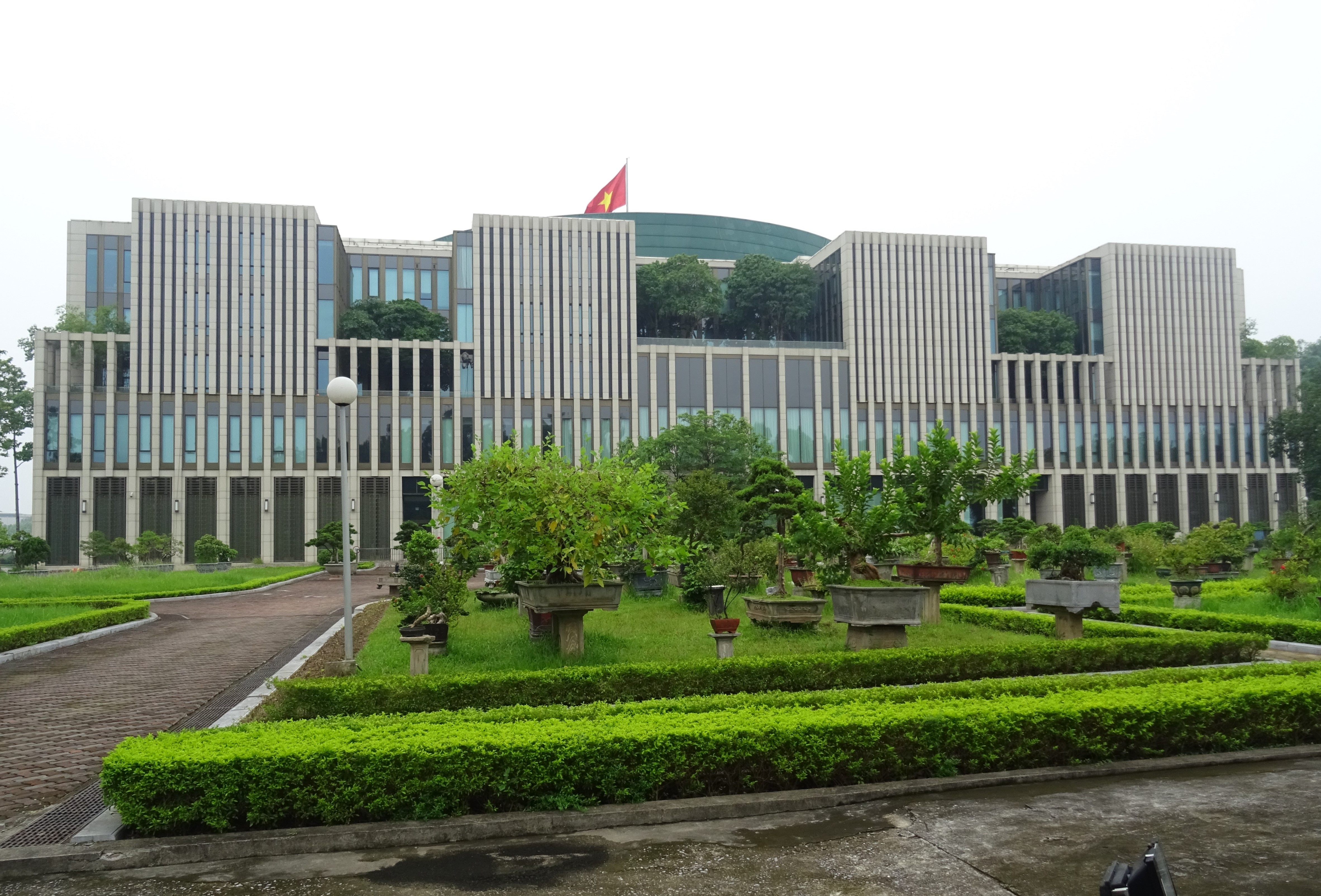 The building of the vietnamese National Assembly in Hanoi.